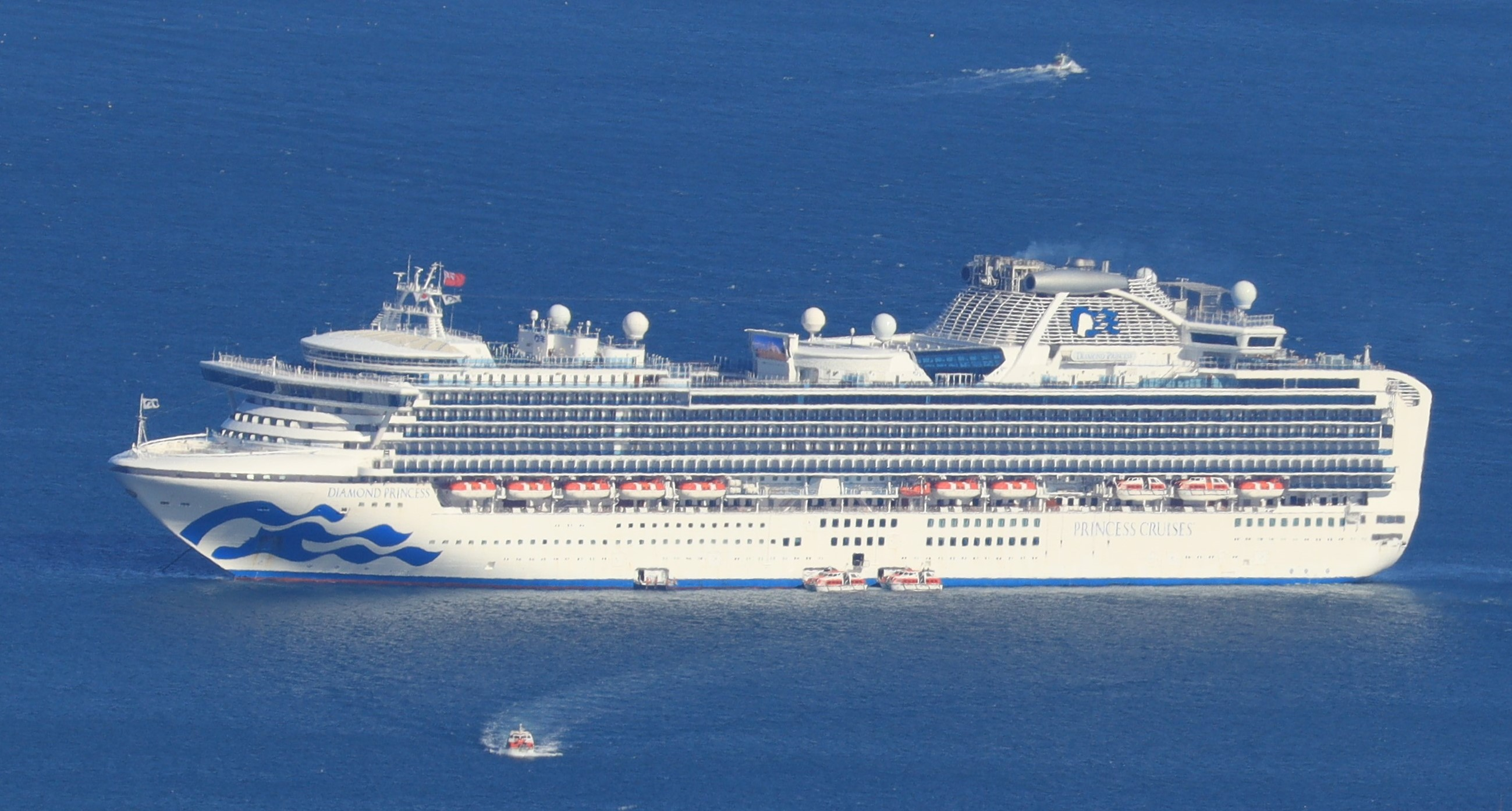 Diamond Princess seen from Mount Asama around port of Toba in Toba, Mie Prefecture, Japan.